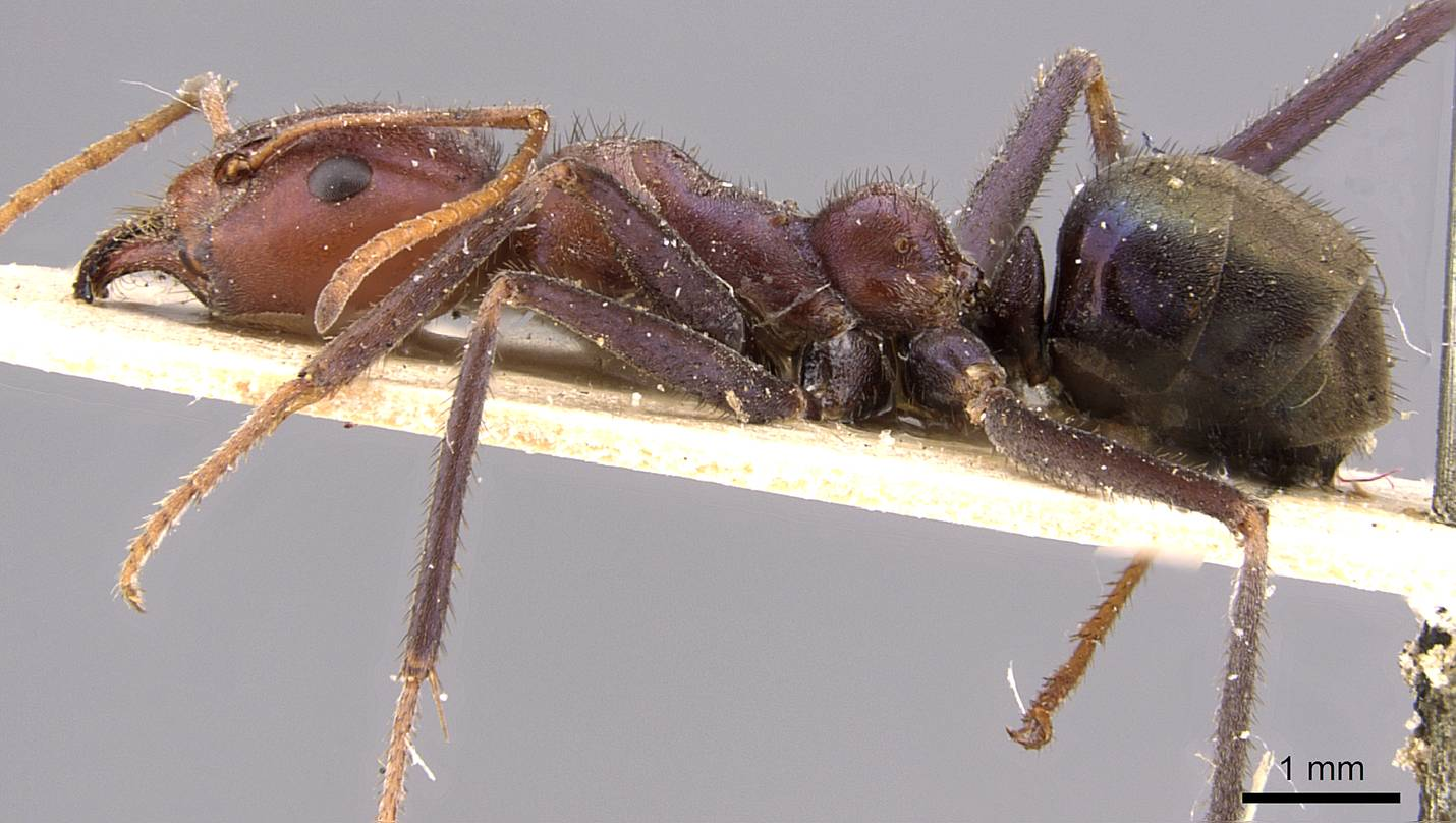 Specimen of Iridomyrmex purpureus. This specimen is housed in the Natural History Museum of Geneva